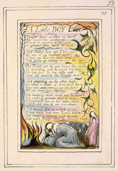 Songs of Innocence and of Experience, object 54 (Bentley 50, Erdman 50, Keynes 50) "A Little BOY Lost"